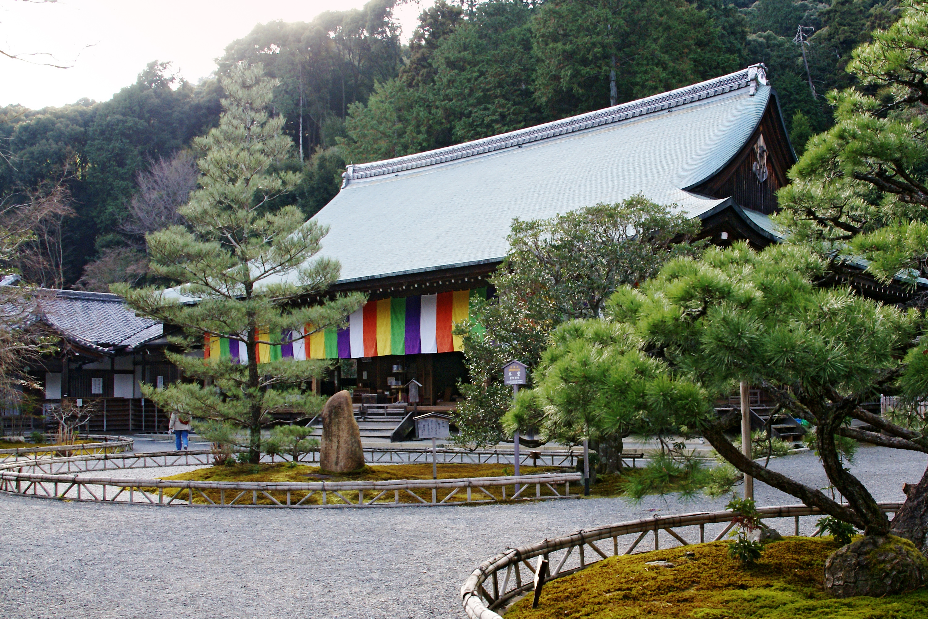 Nison-in in Sagano, Kyoto, Kyoto prefecture, Japan